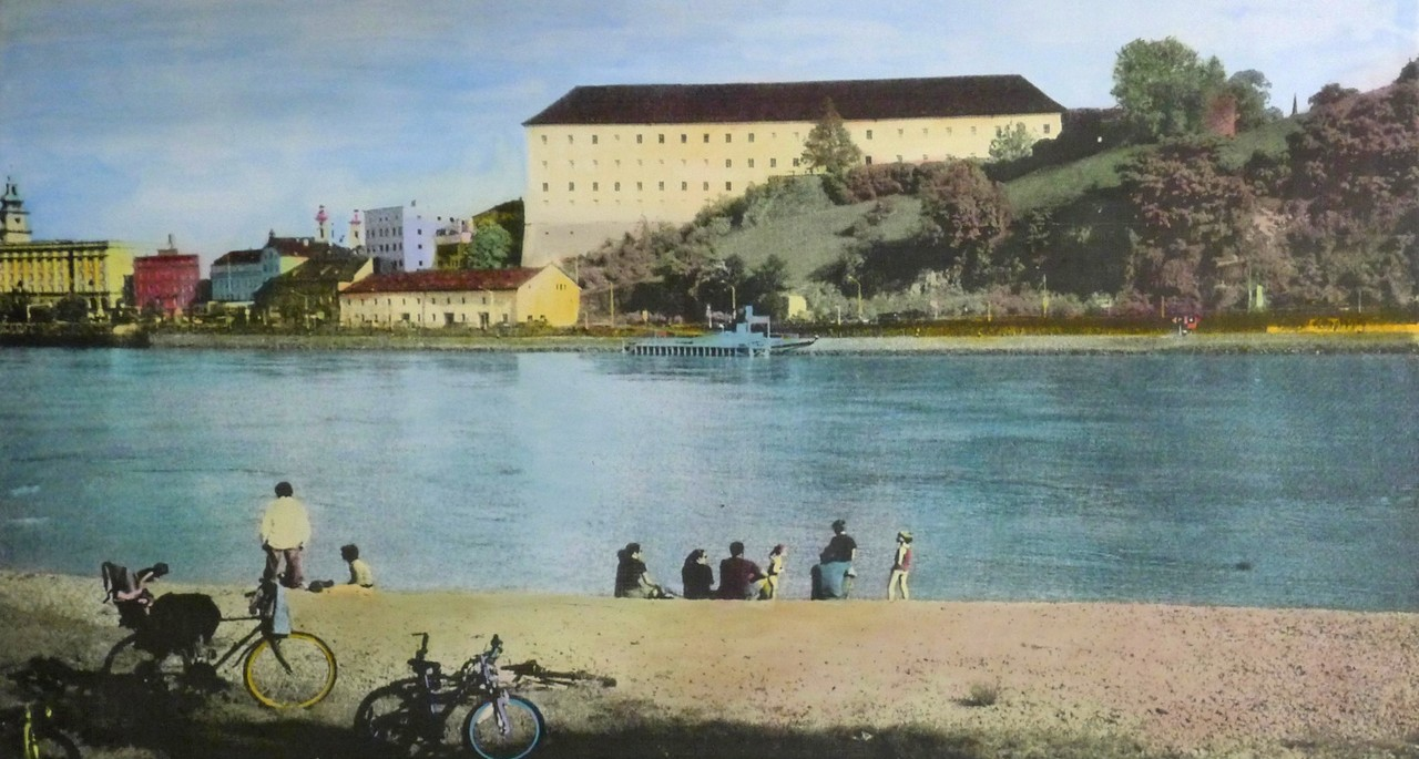 Screen Printing "An der Donau" (At the Danube), 2007 (Linz Castle, Urfahr beach)